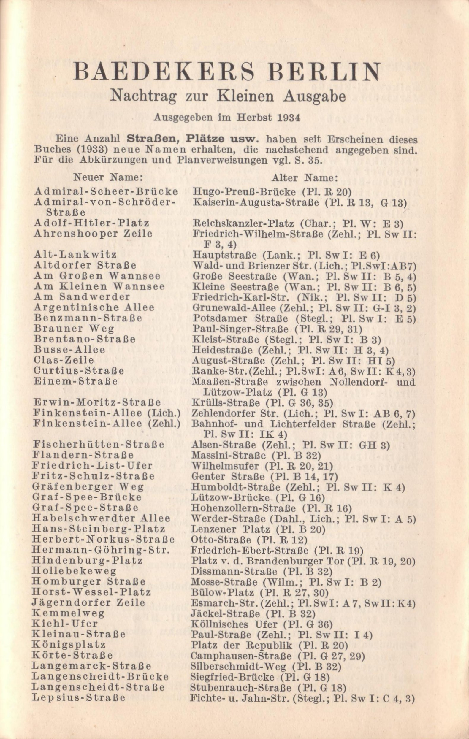 Nachtrag (S. 1) zu Baedeker Berlin 1933, neue Straßennamen